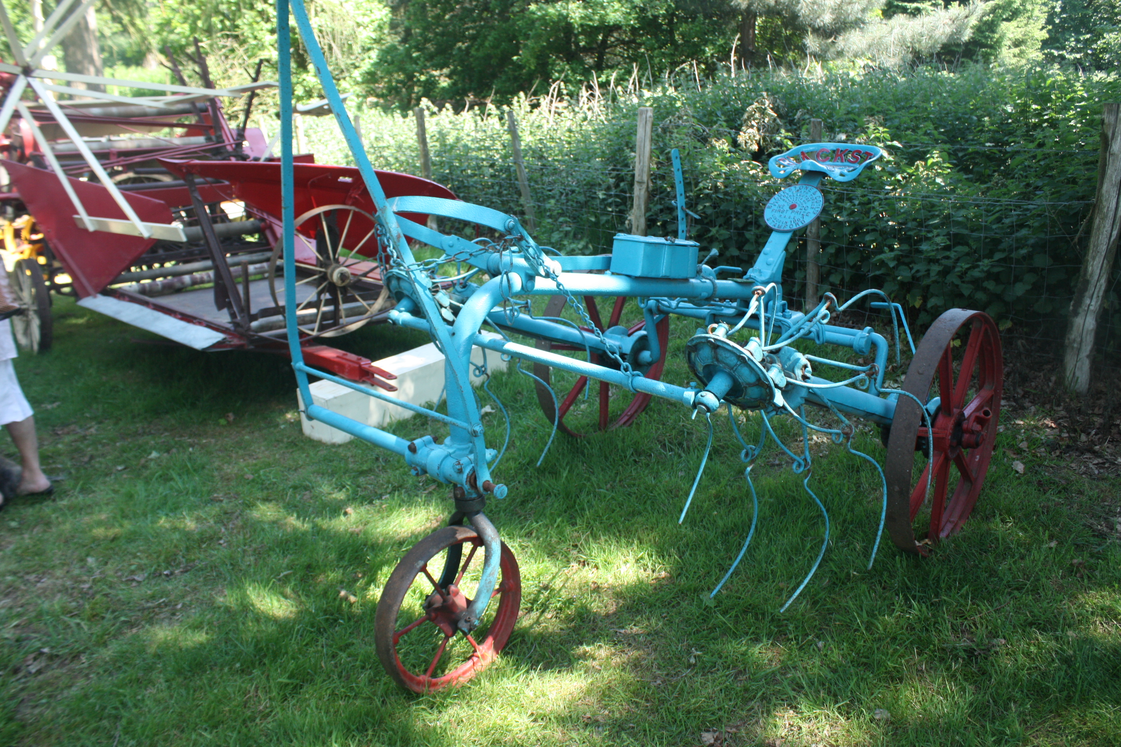 A restored Blackstone Swath Turner and Collector No. 2C (award winning design in 1907) at Woolpit Steam Rally 2009, Suffolk, England; a reaper-binder partly visible on the left/behind